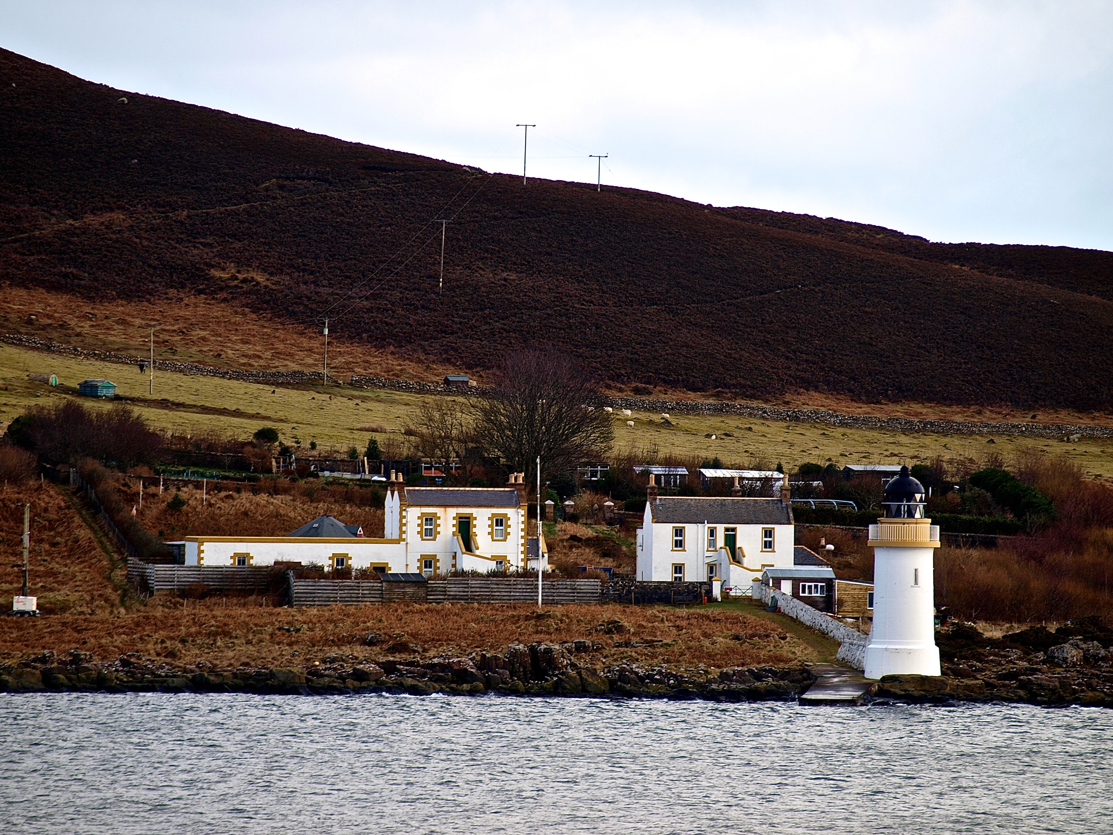 The Inner lighthouse on the south end of Holy Isle in Lamlash Bay, Isle of Arran in the Firth of Clyde as seen from King's Cross, Isle of Arran.